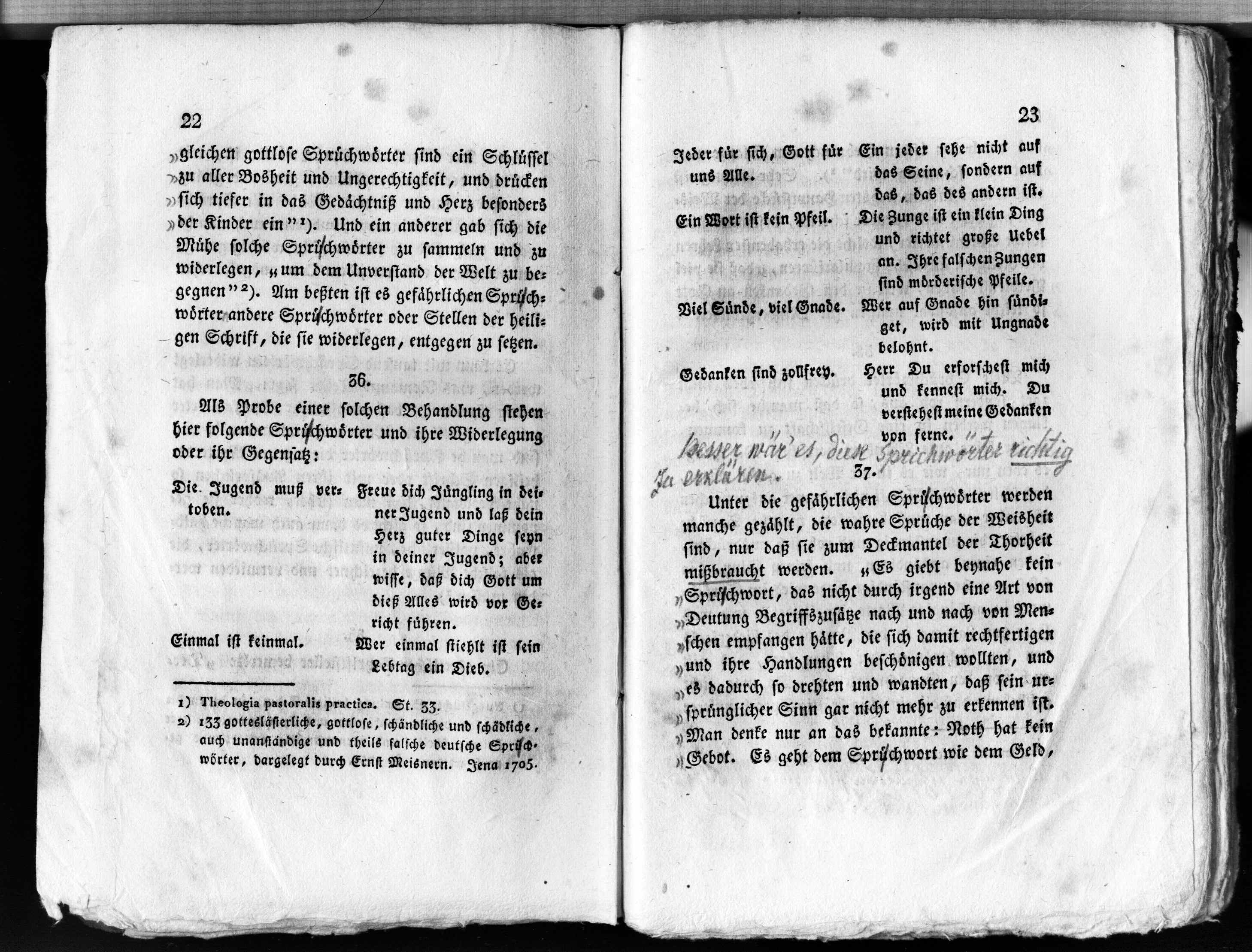 This is a scan of the historical document